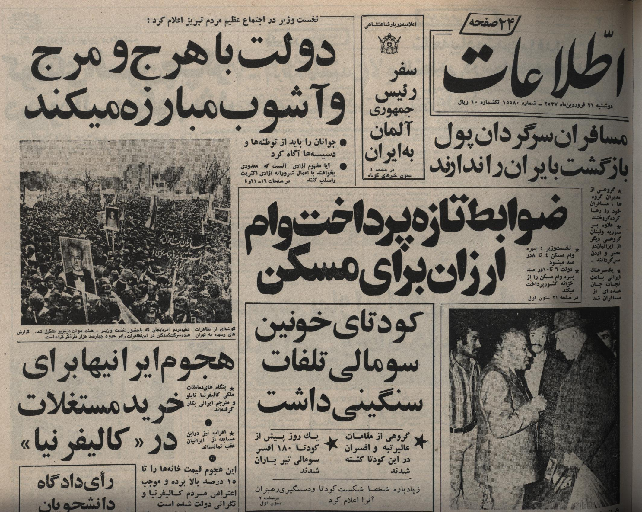 Iranin Etela'at Newspaper 21. 1. 2537 (shahanshahi), 10. April 1978